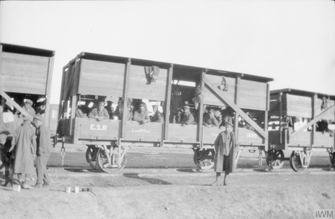 Photograph of troop train.